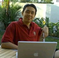 Adam Khoo (born 8 April 1974), a Singaporean entrepreneur, author and peak performance trainer.